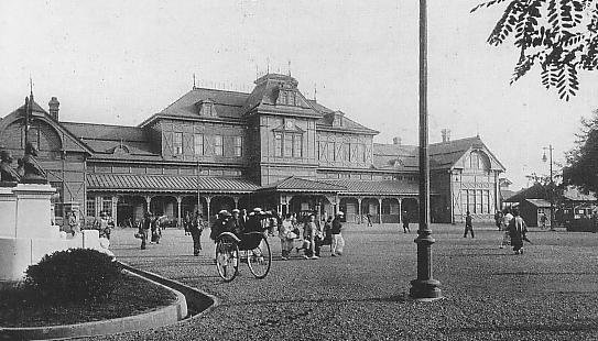 Sapporo Station in Taisho era